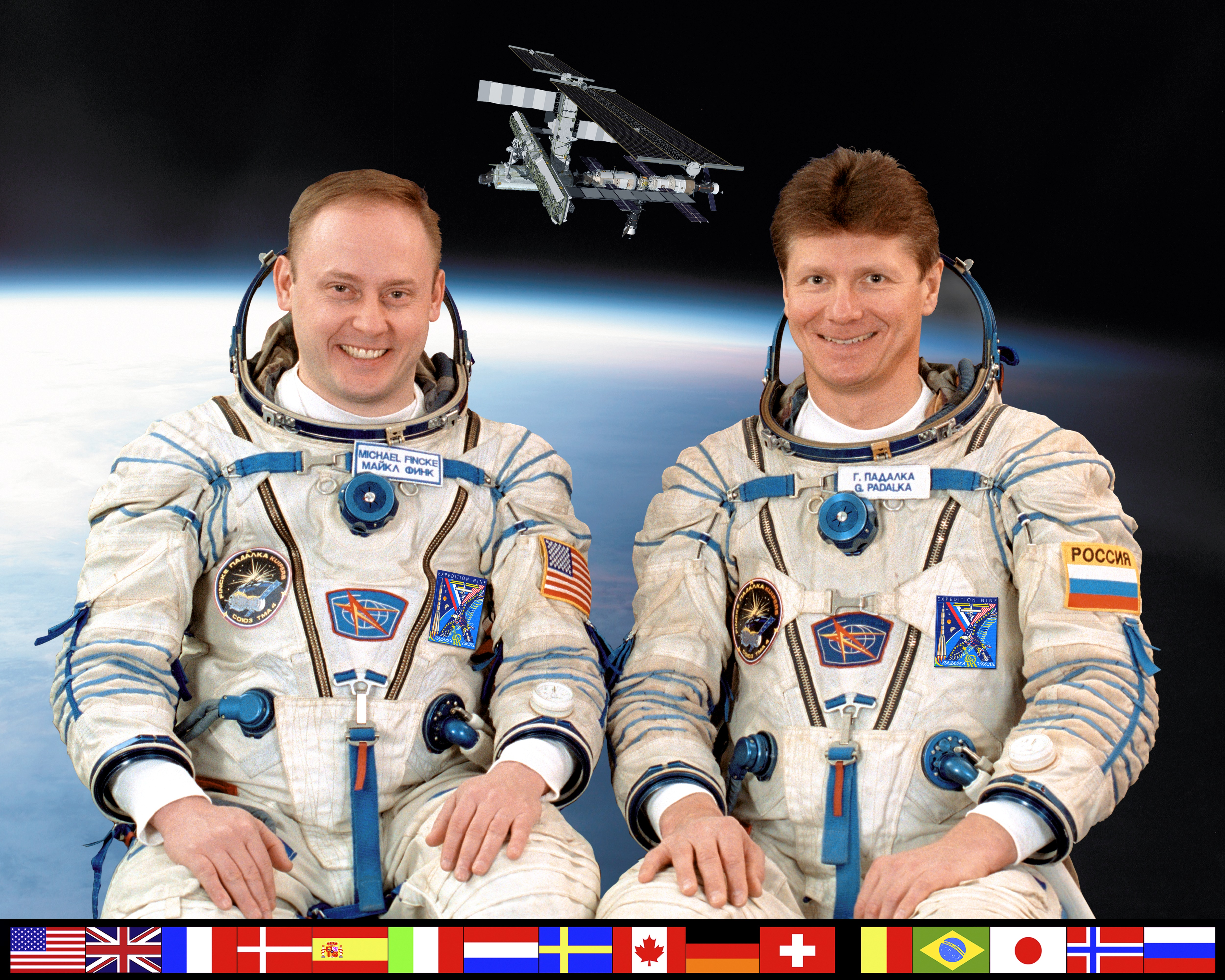 Astronaut Edward M. (Mike) Fincke (left), Expedition 9 NASA ISS science officer and flight engineer, and cosmonaut Gennady I. Padalka, commander, pose for their crew portrait while in training at the Gagarin Cosmonaut Training Center in Star City, Russia for their scheduled launch in the spring of this year in a Soyuz TMA-4 spacecraft. Padalka represents the Federal Space Agency.